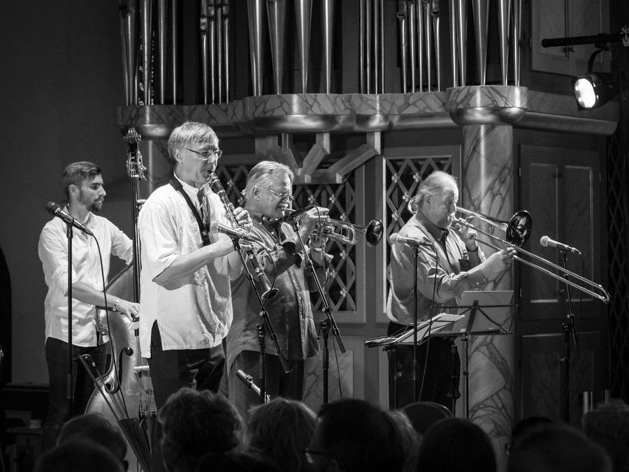 Magnolia Jazzband and Topsy Chapman at the stage in Oslo Cathedral. The concert was part of Oslo Jazzfestival and took place on 17. August 2017. Lineup: Topsy Chapman (vocal), Anders Bjørnstad (trumpet), Georg Michael Reiss (clarinet), Gunnar Gotaas (trombone), Håkon Gjesvik (piano), Børre Frydenlund (banjo), Sebastian Haugen-Markussen (double bass) and Torstein Ellingsen (drums).